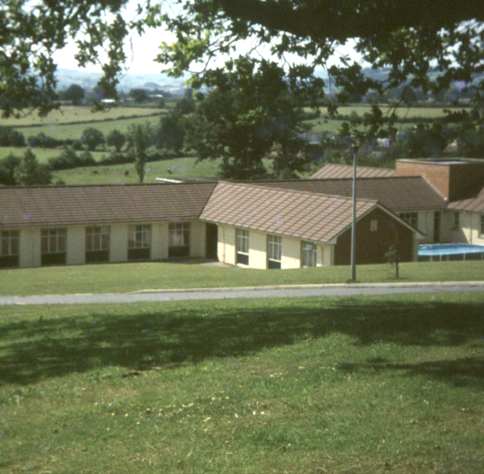 Merrifield Children's Unit (1976 extension), Tone Vale Hospital, Somerset, England.